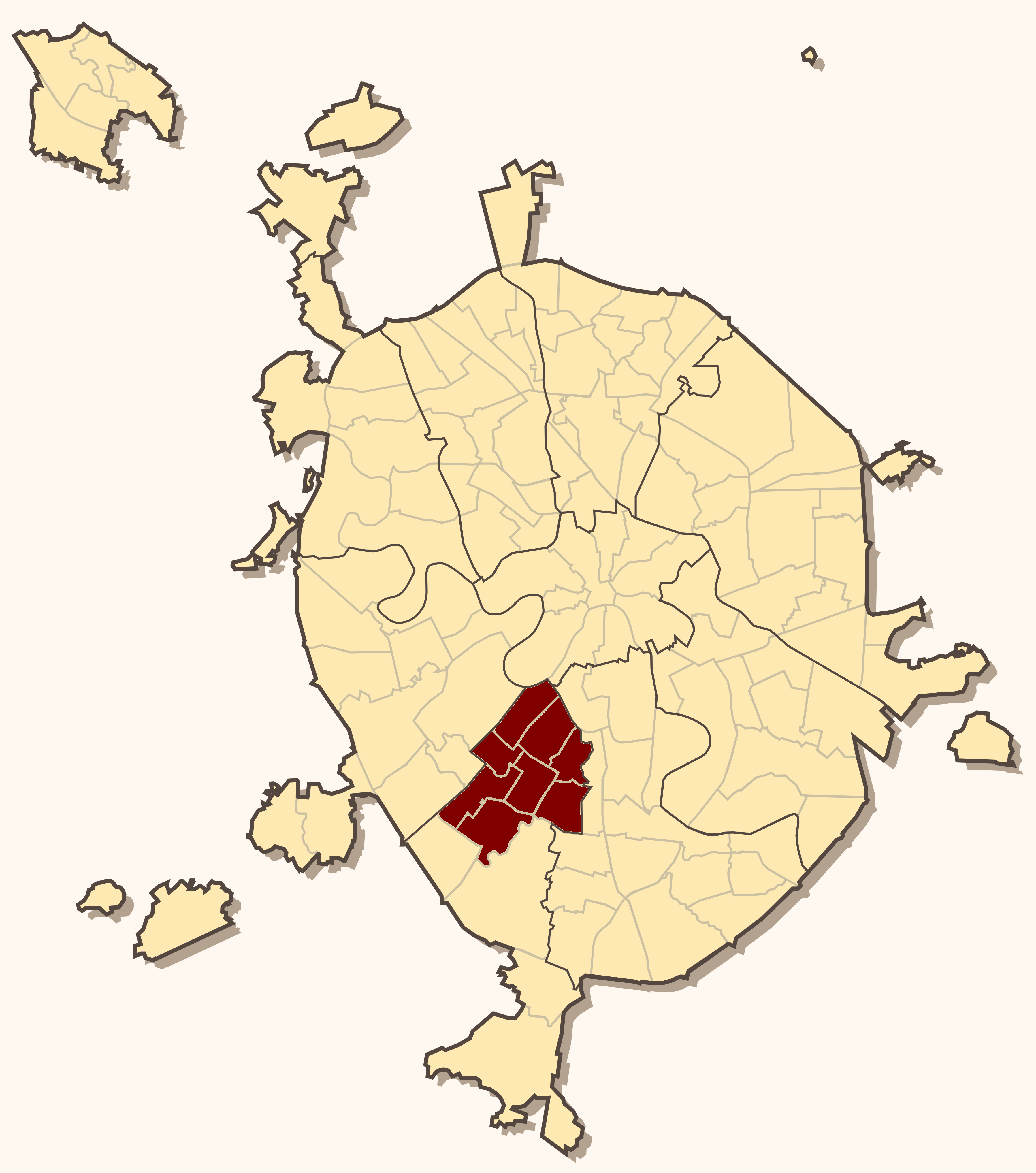 Map of Andreevskoe Blagochinie of Moscow